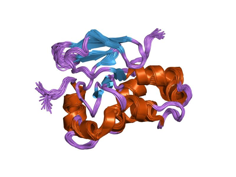 Cartoon representation of the molecular structure of protein registered with 1nyo code.